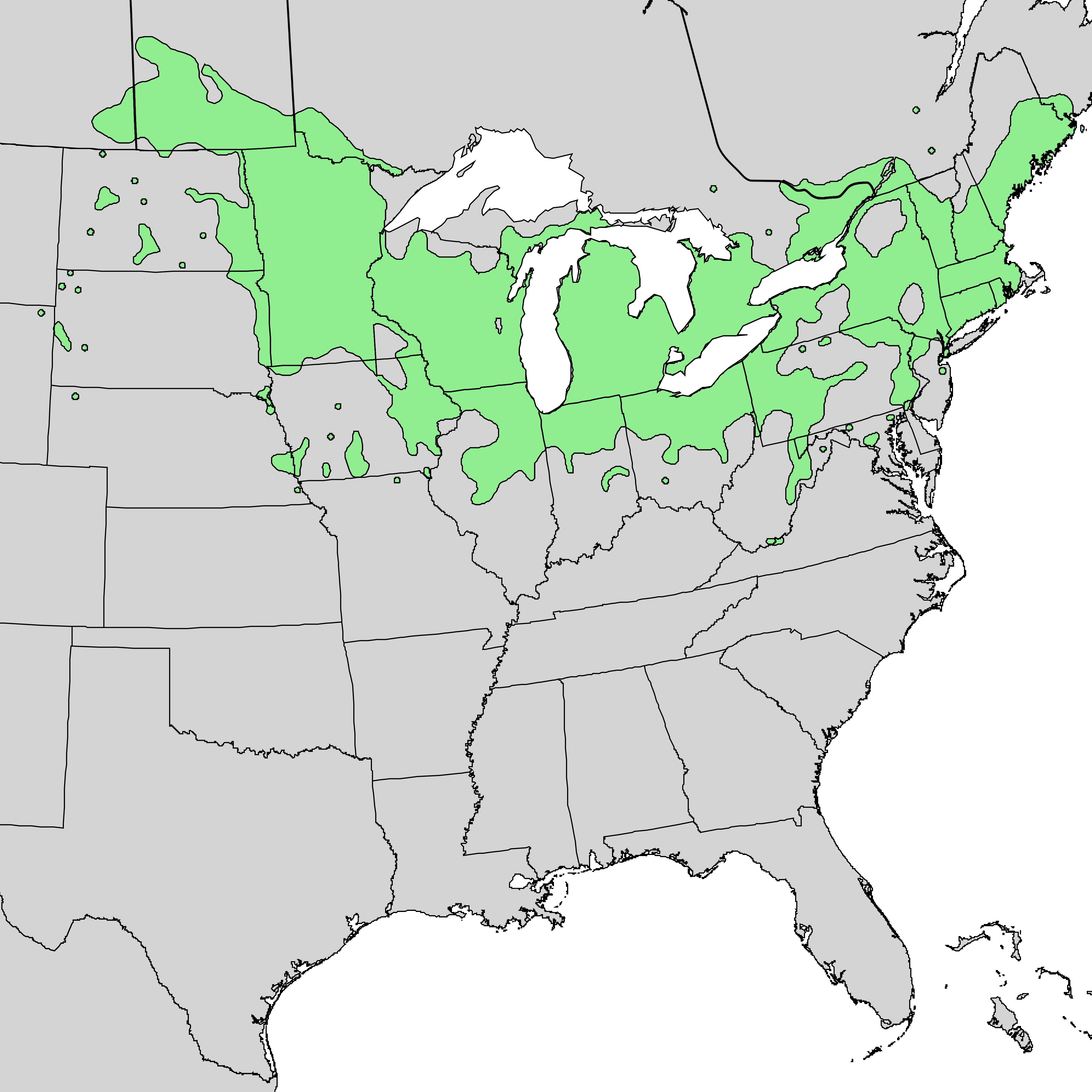 Natural distribution map for Viburnum lentago (nannyberry)